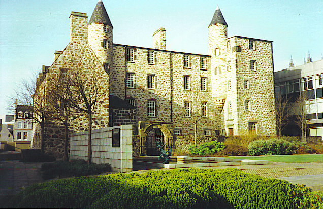 Provost Skene's House. This rubblestone building is one of the oldest left in Aberdeen. It was formerly houses in the old town, then became a lodging house. Today it houses one of the city's museums with period displays in each room. There is also a fine cafe on the ground floor which sells fine cakes and rowies!